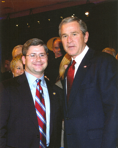 President George W Bush with North Carolina Congressman Patrick McHenry in 2005